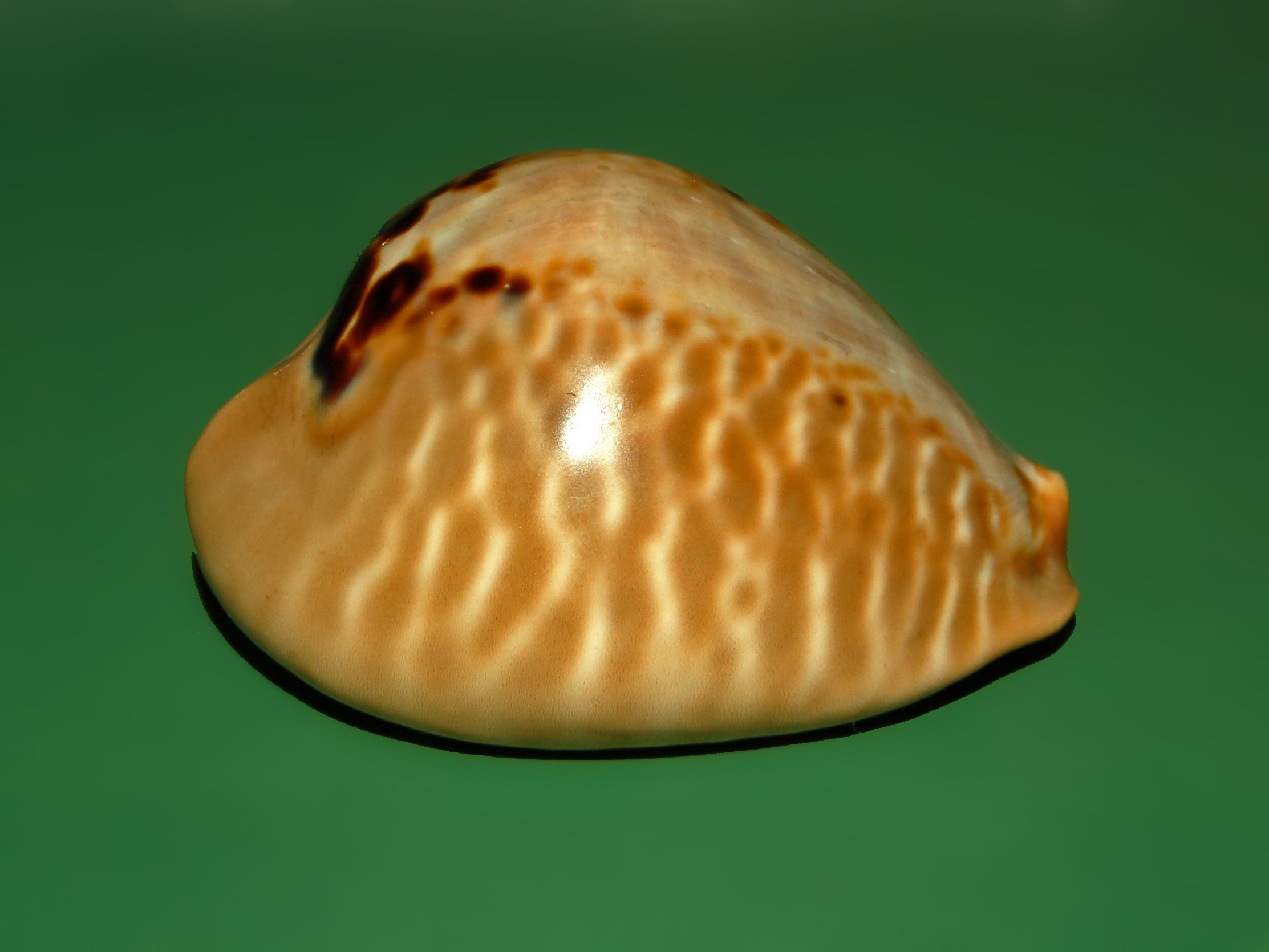 Muracypraea mus - Venezuela, Amway Bay